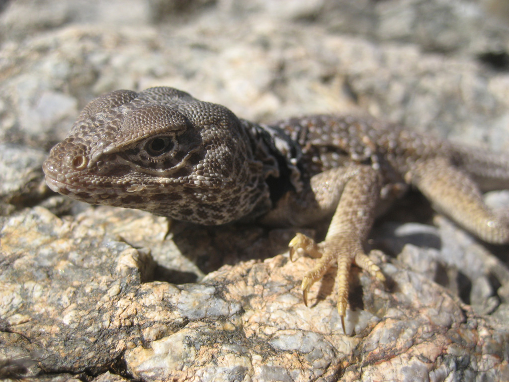 Crotaphytus bicinctores, Great Basin Collared Lizard. Caught at the Bouse Dunes, (west perimeter section, East Cactus Plain Wilderness Study Area) outside of Parker, Arizona while on a field trip with the University of Arizona ECOL483 Herpetology class (14 April 2007). Taken by Robert Gibboni III